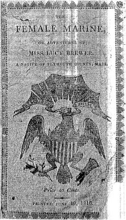 Onlie PDF of The Female Marine